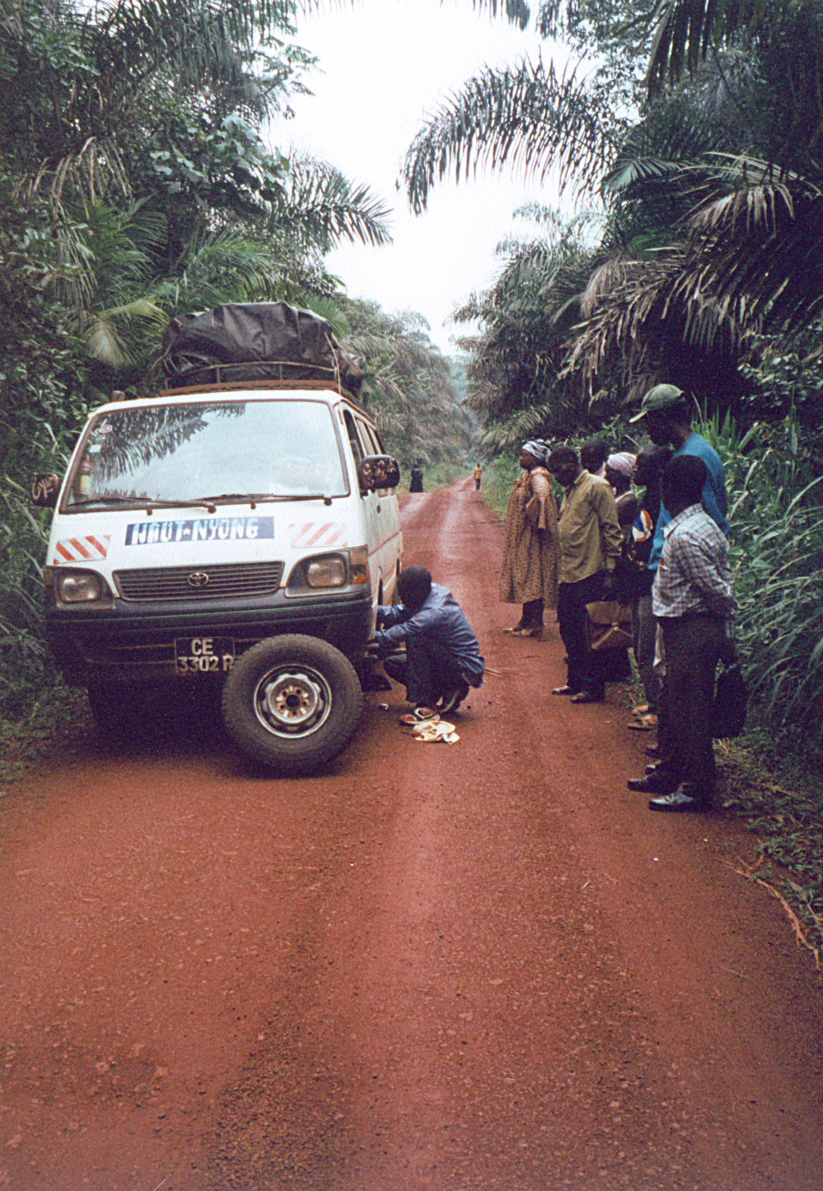 Changing a tire on a bush taxi in the East Province of Cameroon, somewhere between Abong-Mbang and Ayos.